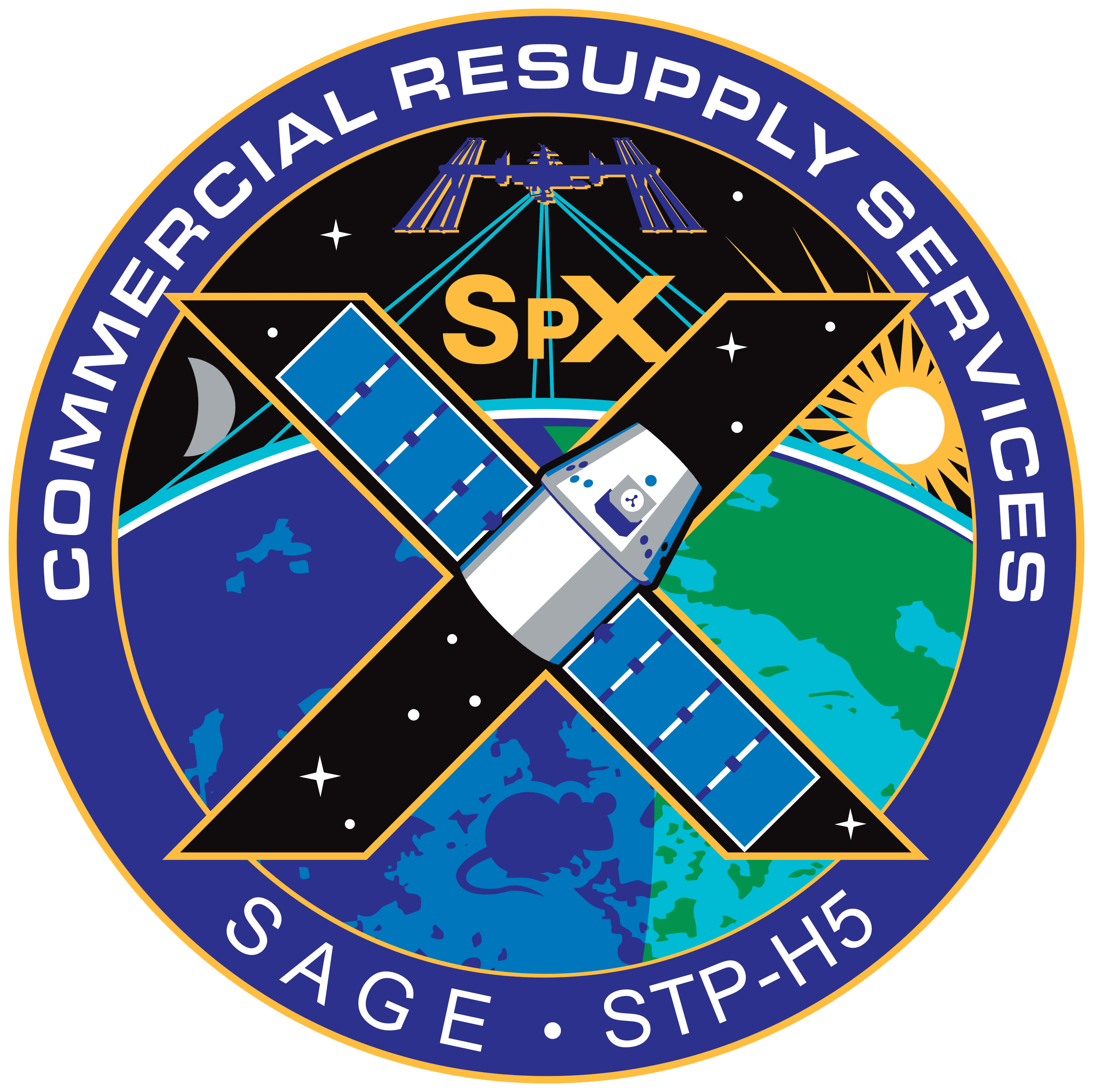 NASA's insignia for the tenth Commercial Resupply Services flight to the International Space Station, with "mousetronauts." Also includes the Stratospheric Aerosol and Gas Experiment (SAGE) and a Lightning Imaging Sensor, designated STP-H5.